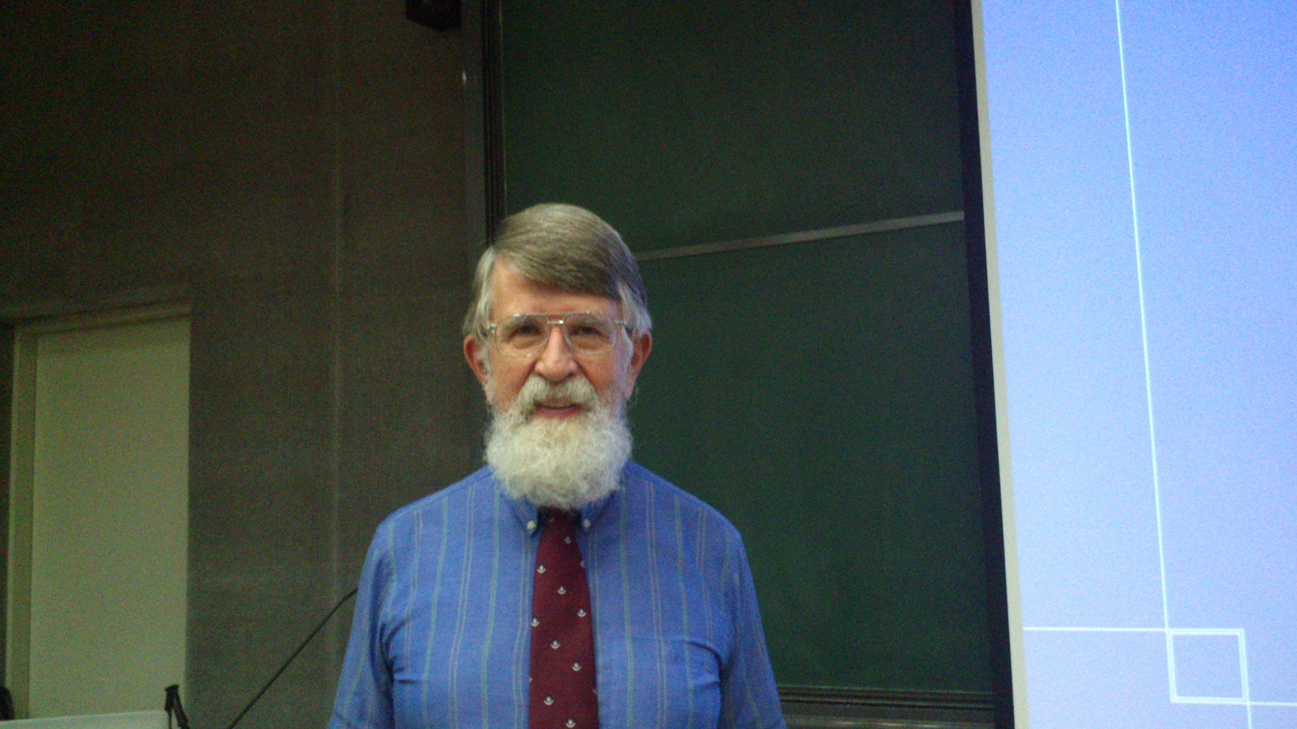 Don N. Page at Department of Physics, National Taiwan University, Taiwan.